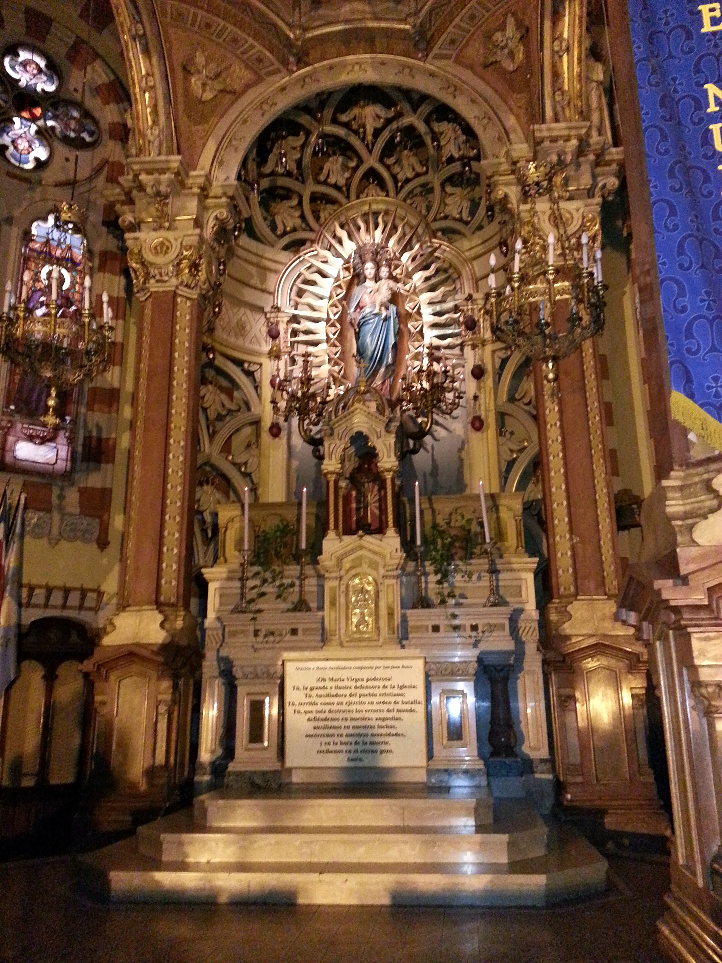 Chapel to Mary Help of Christians. Basilica Mary Help of Christians and Saint Charles Borromeo, Buenos Aires, Argentina.